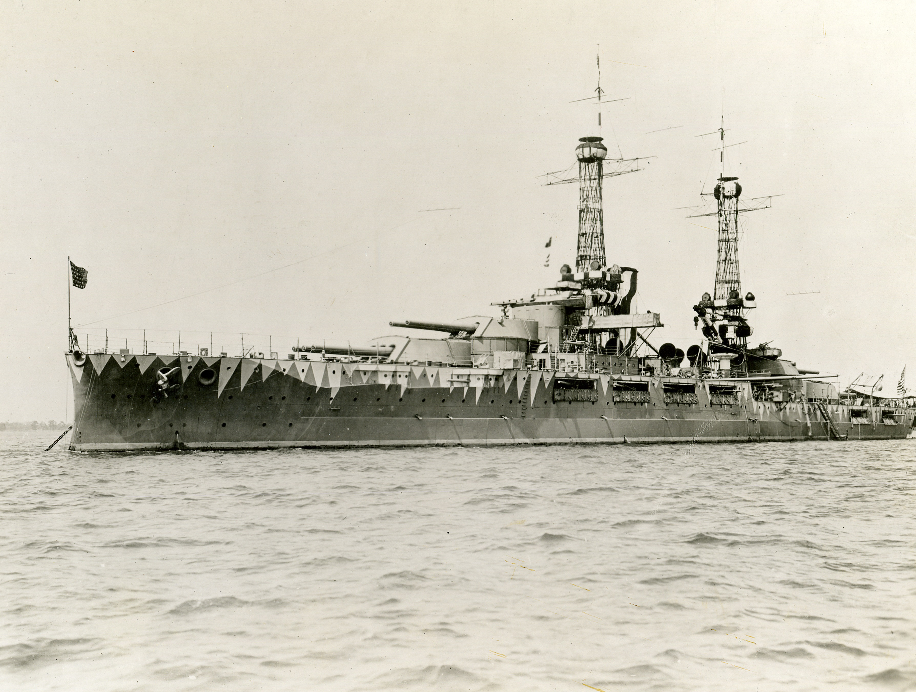 Removed caption read: Photo # NH 44401 USS Oklahoma wearing experimental camouflage, circa 1917